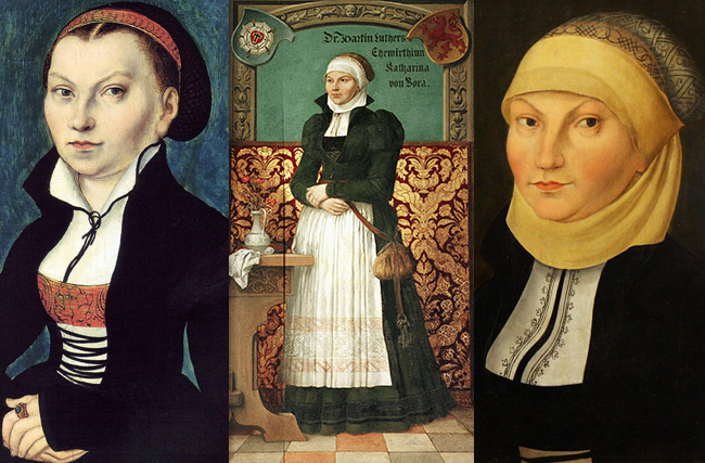 Three paintings of Katharina Von Bora, the wife of Martin Luther.